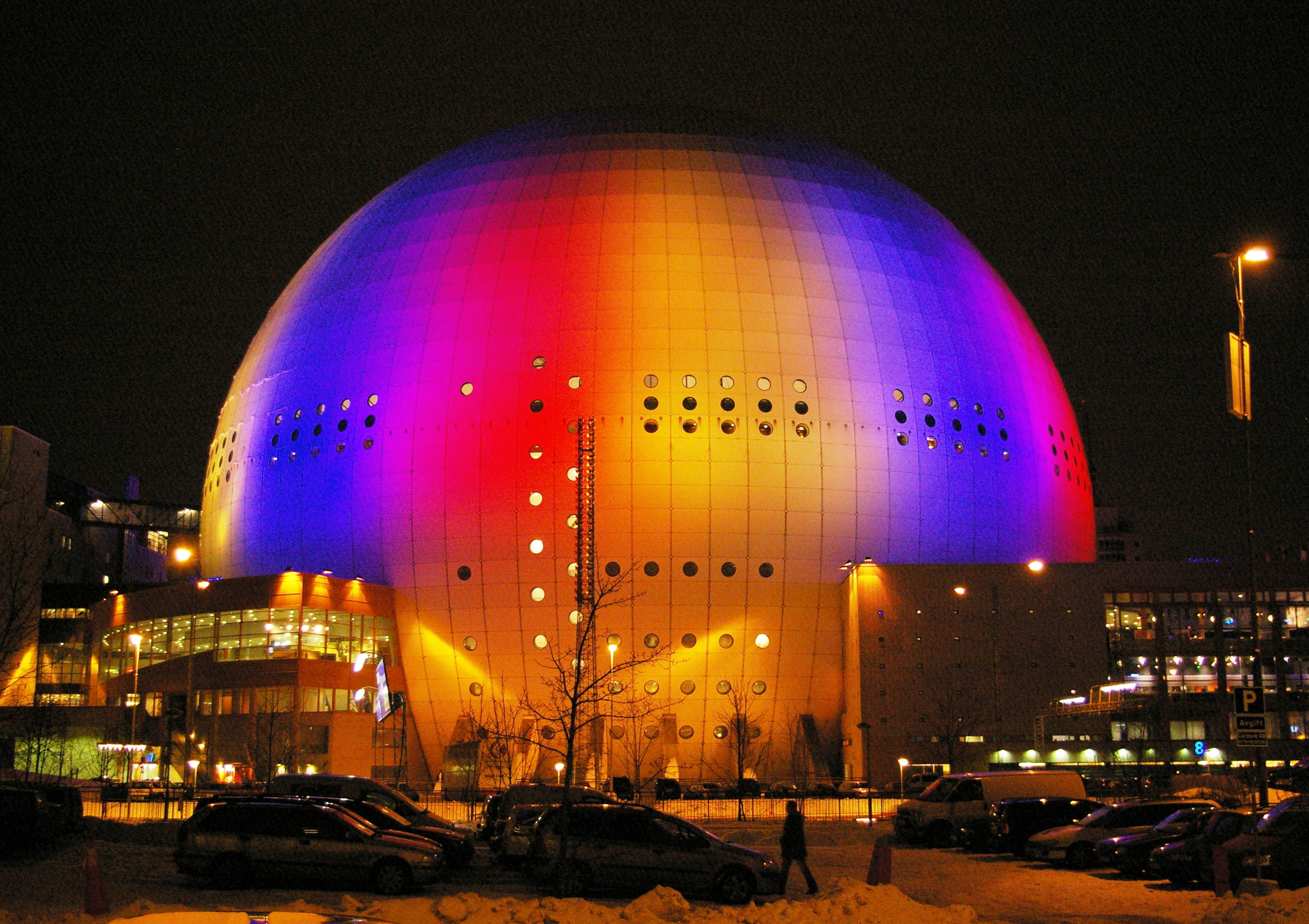 Globen (The Globe Arena), Stockholm, Sweden